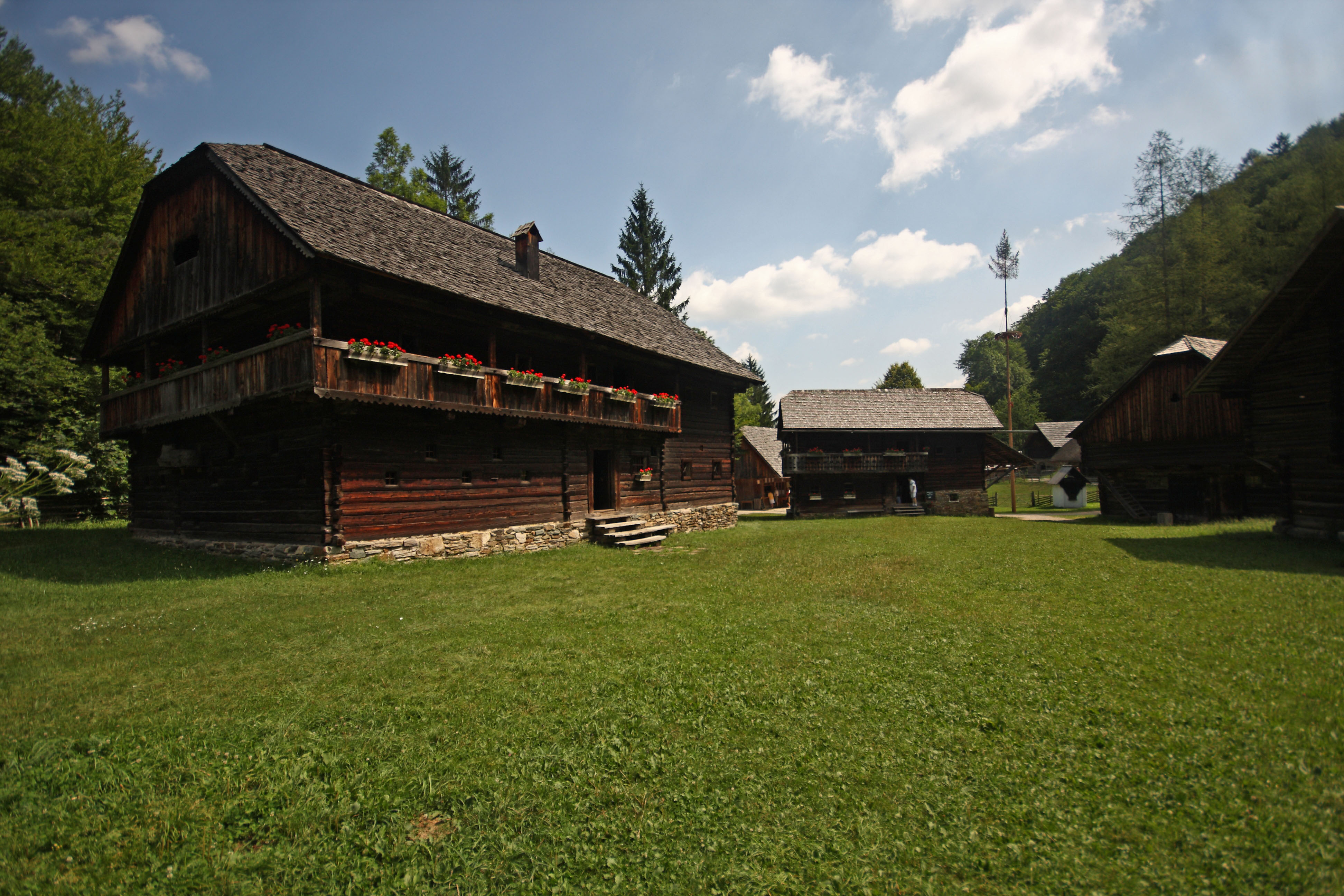 outdoor museum stübing, farm, Styria, Austria